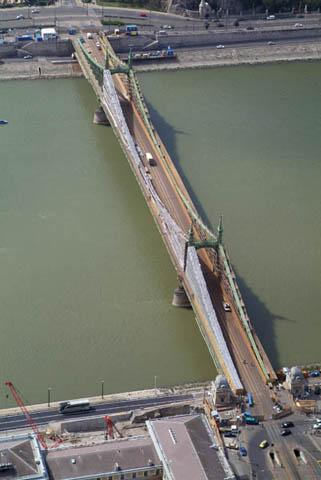 Freedom bridge, Budapest, Hungary